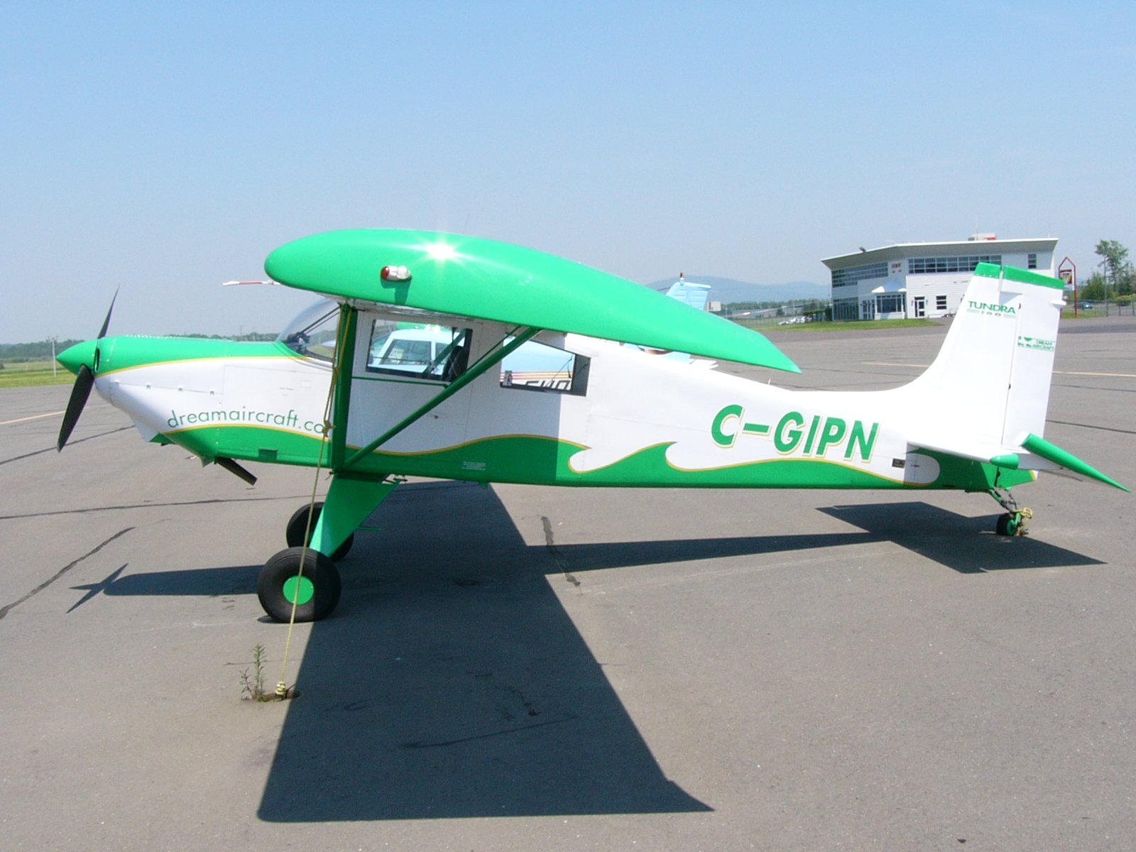 A Dream Tundra 180 at Bromont, Quebec, Canada